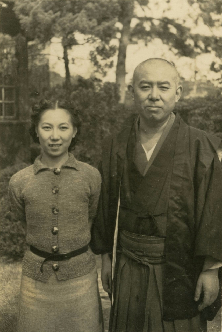 Japanese novelist Jun'ichirō Tanizaki (1886-1965) and his daughter Ayuko.